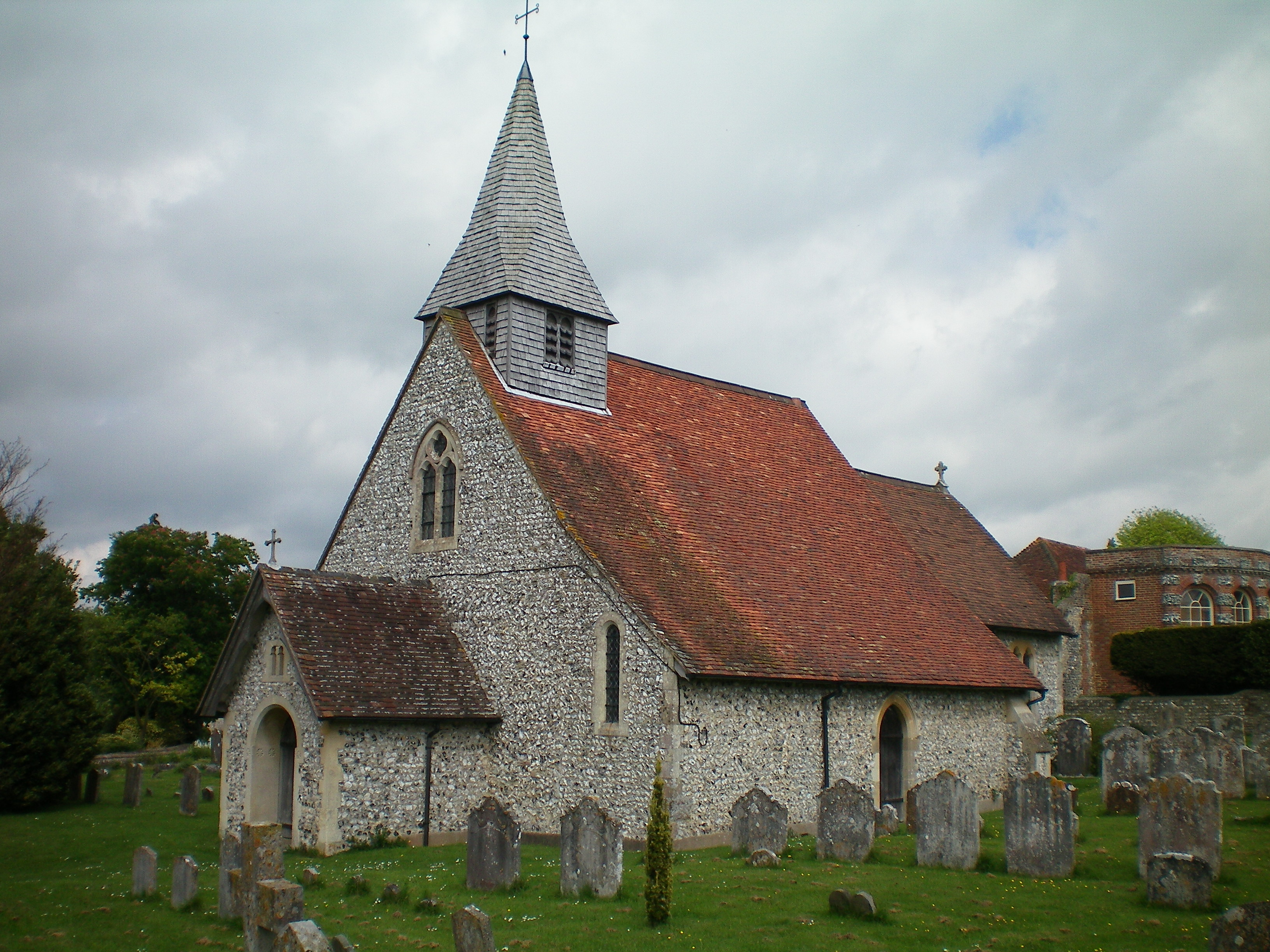 Eartham Church, West Sussex, England.